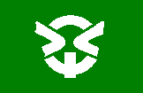 Flag of Hiraya Nagano